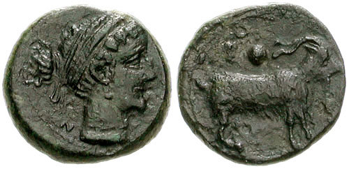 Sicily, Nacona. V century BC. Æ Onkia (11mm, 1.12 g). [NA-KO]-N[AION] Female head right, wearing hair band Goat right; pellet above, grain-ear before.